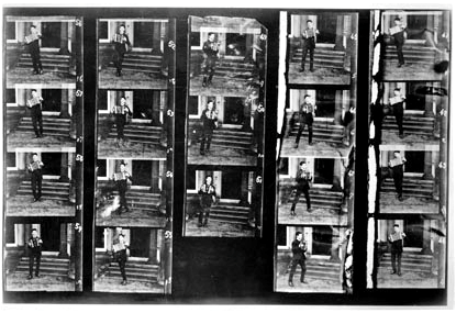 1930 copy of Louis Le Prince's Accordion Player original frames (1888) by National Science Museum (London). Courtesy of NMPFT (Bradford).